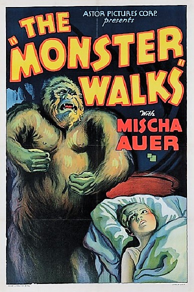 Poster del film The Monster Walks (1932).